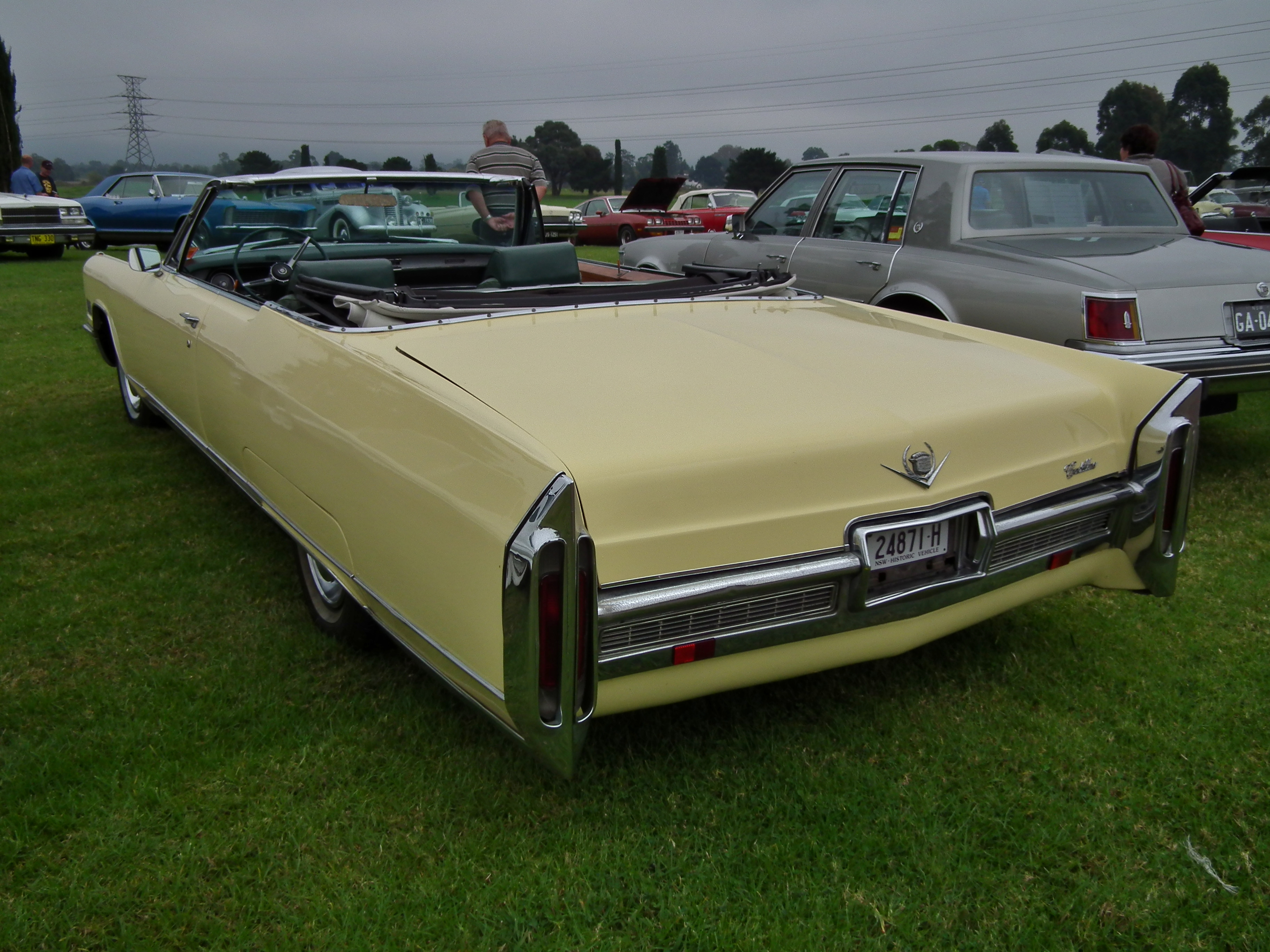 1966 Cadillac Eldorado convertible. Taken at the General Motors Display Day, held in the grounds of Penrith Panthers Club, Penrith NSW.